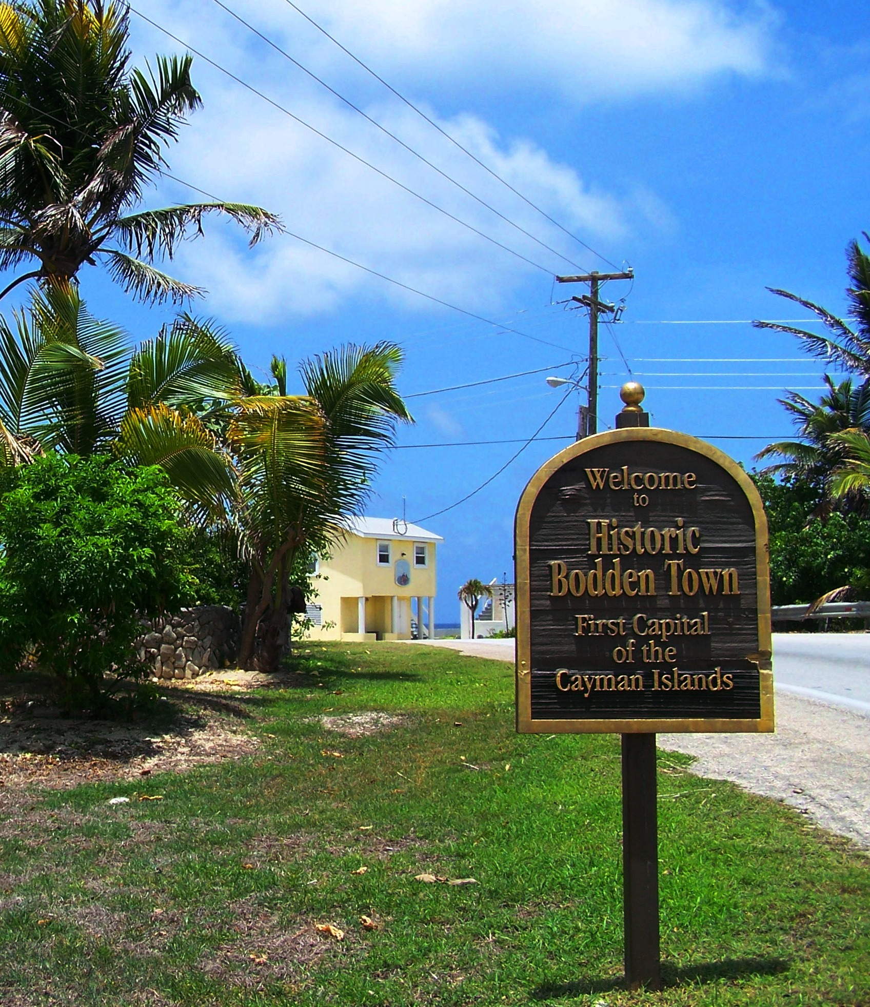 Welcome sign at Bodden Town city limits